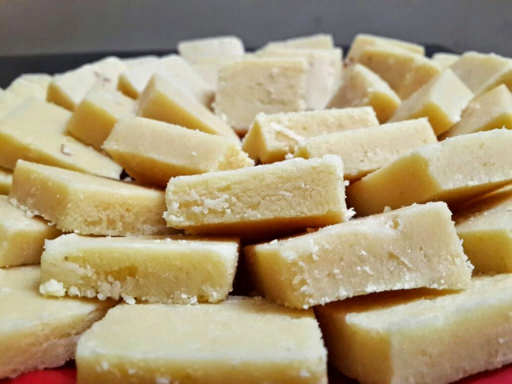 Diwali celebrations ਪੰਜਾਬੀ: ਸਾਦੀ ਬਰਫੀ